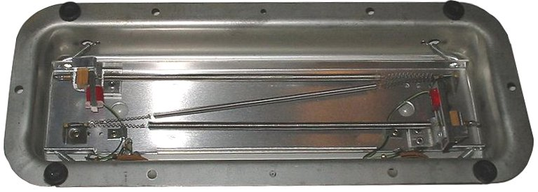 O. C. Electronics, inc. Folded Line reverberation device Manufactured by beautiful girls in Milton, Wis. under controlled atmosphere conditions. U.S. pat. 3,363,202 / Canadian pat. 825,330 Type 60